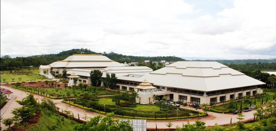 อาคารสำนักงานอธิการบดี